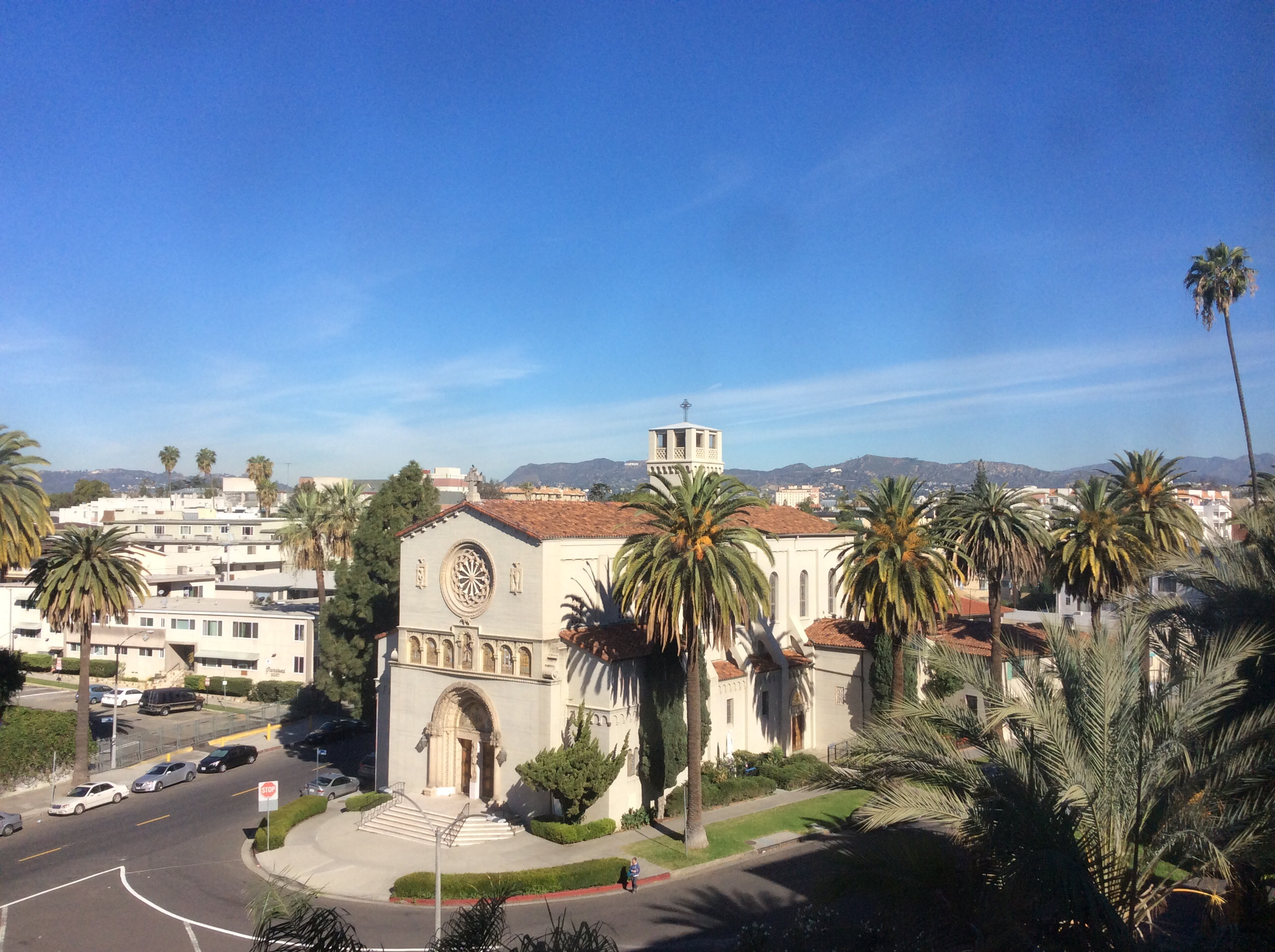 The view of the Precious Blood Catholic Church in Los Angeles, California